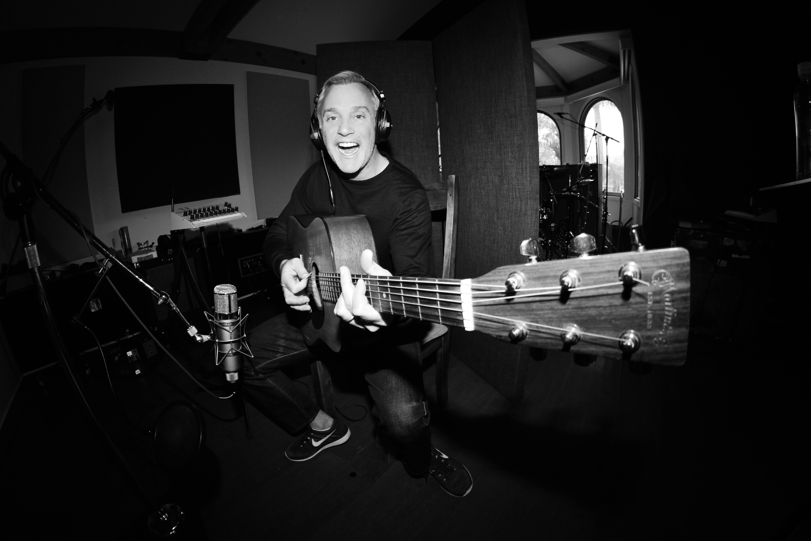 John Feldmann with his Martin acoustic at Foxy Studios